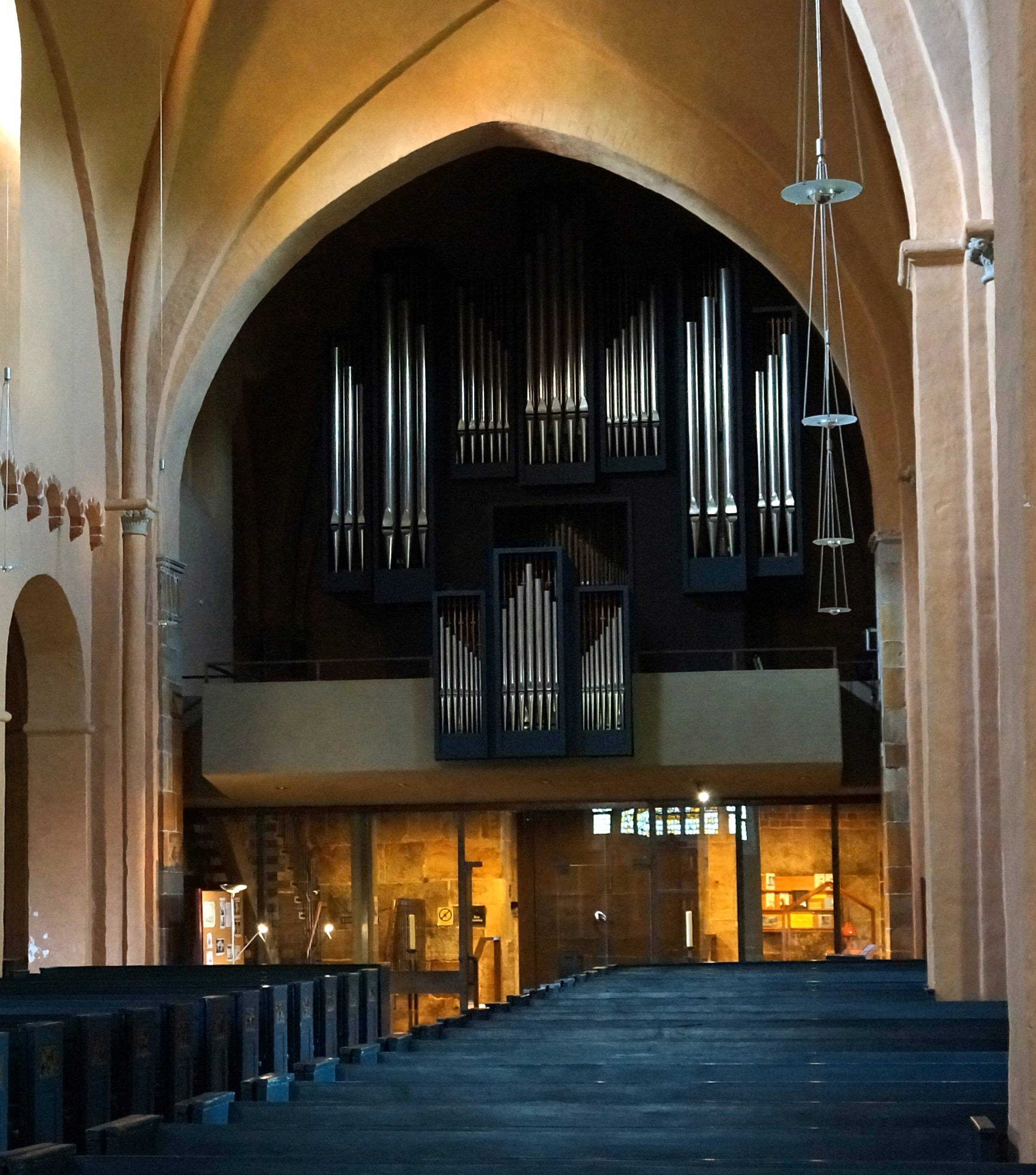 Organ in the Alexander Church in Wildeshausen